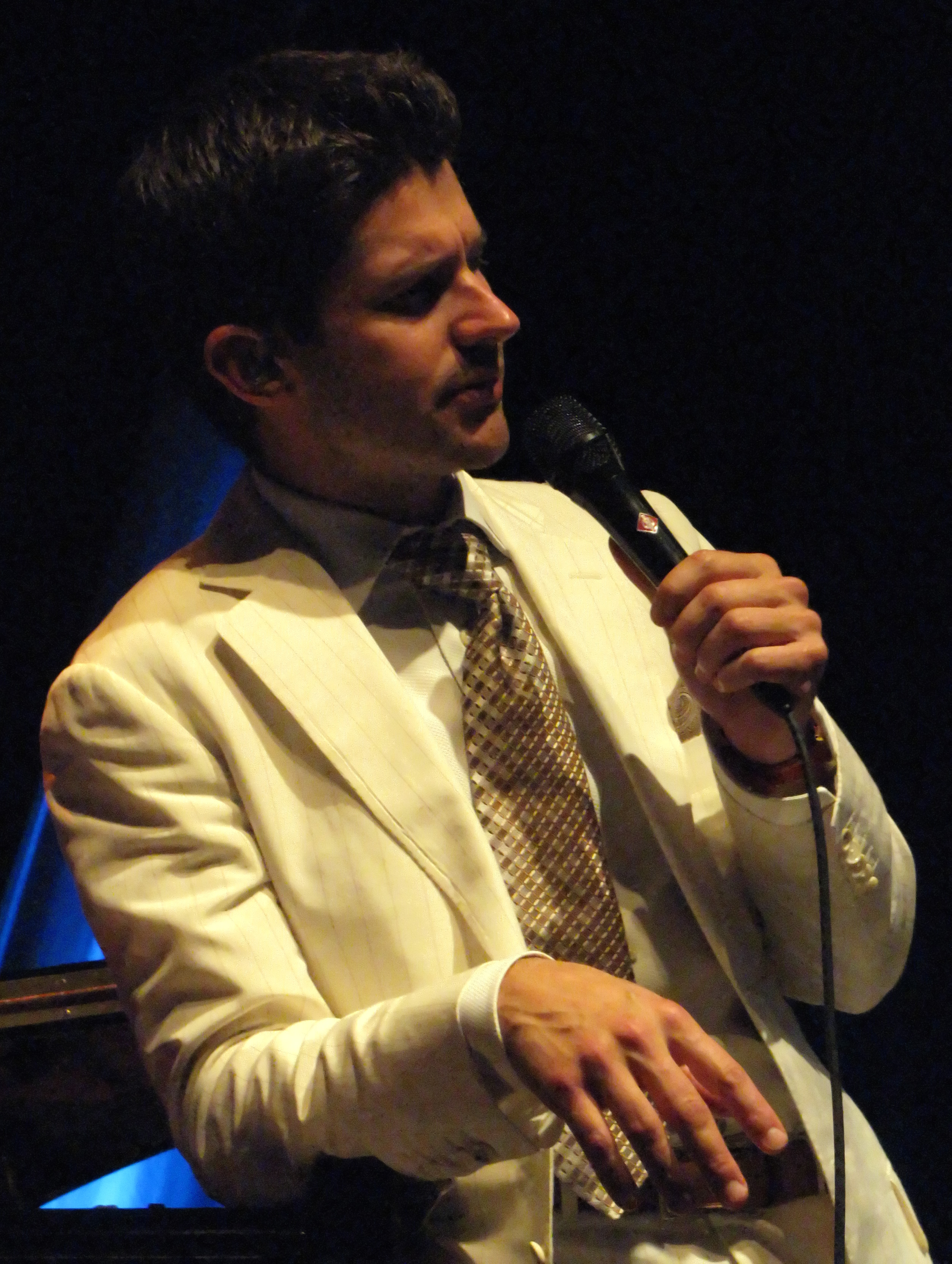 Singer Matt Dusk in concert at the Uptown Waterloo Jazz Festival